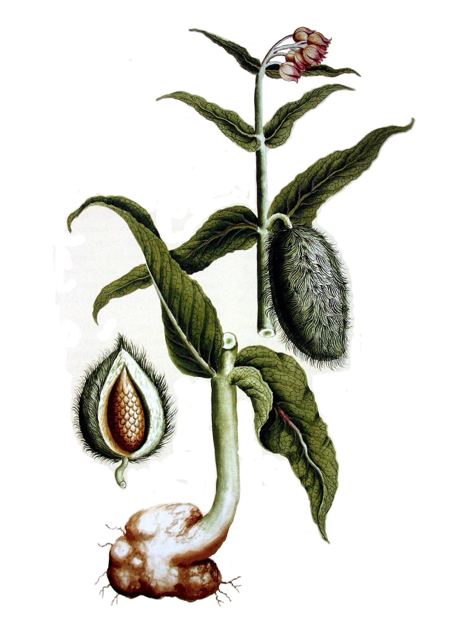 Gomphocarpus cancellatus (Burm.f.) Bruyns (figured as Asclepias cancellata), watercolour